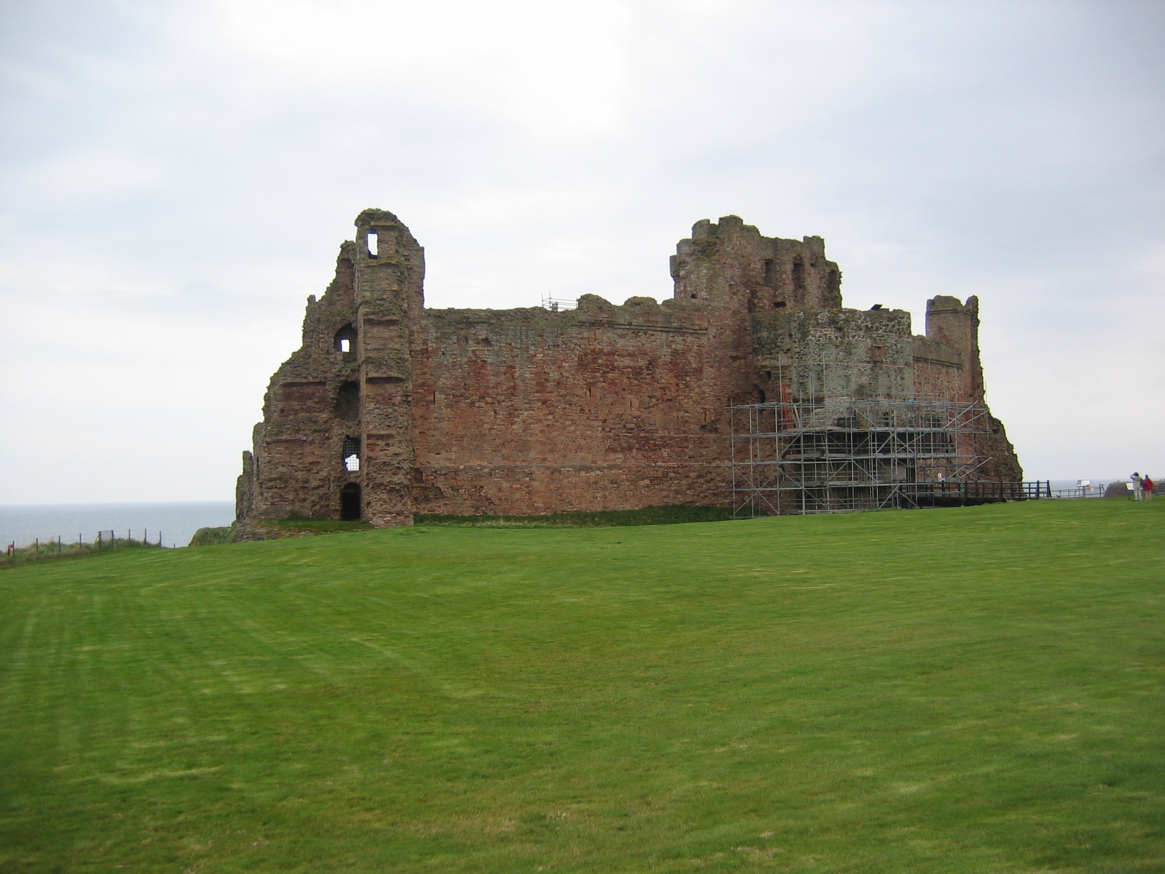 Tantallon Castle, East Lothian